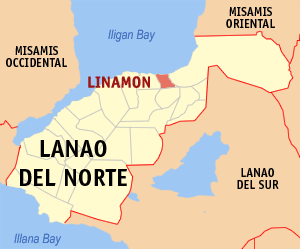 Map of the Lanao del Norte showing the location of Linamon